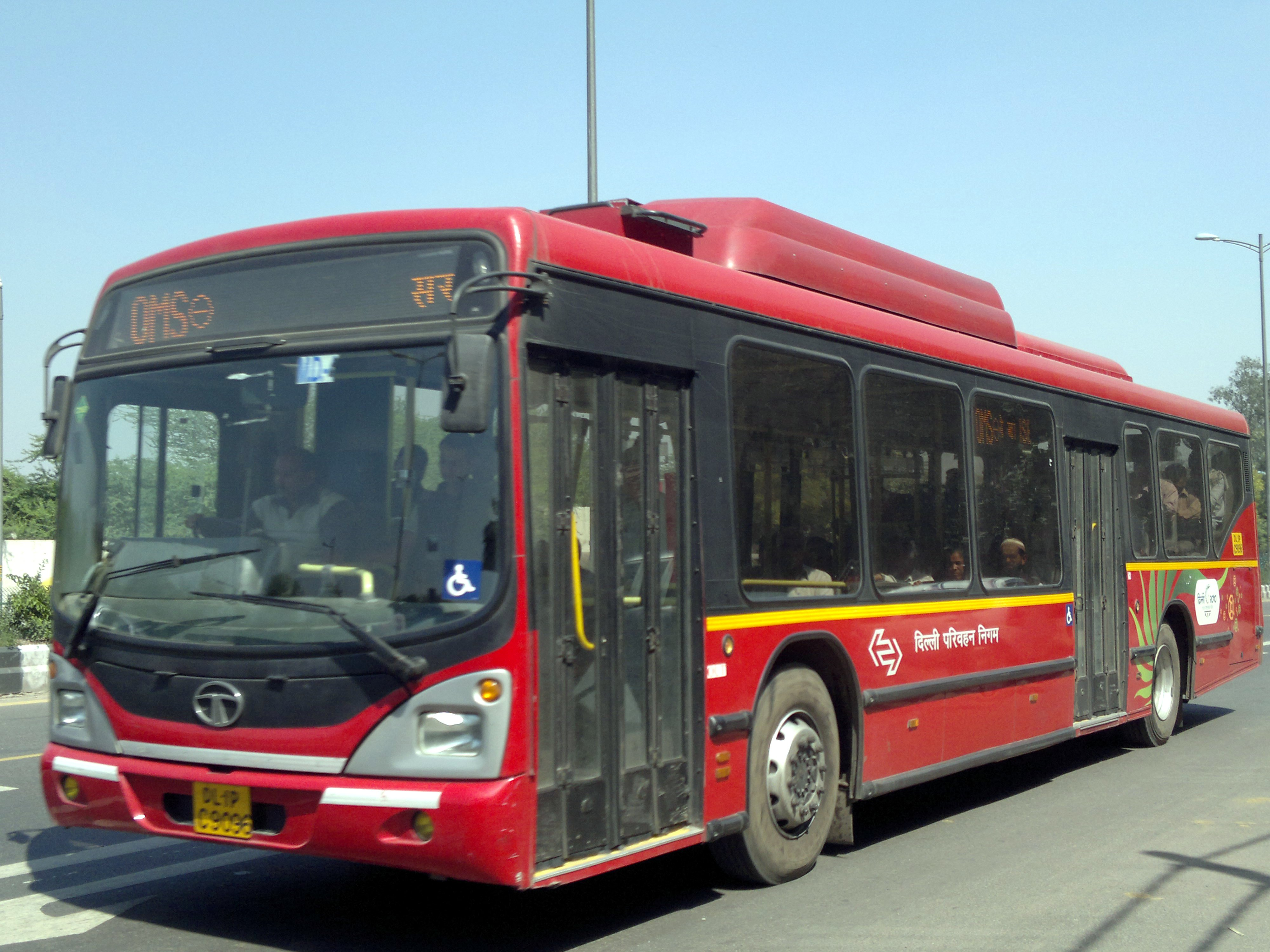 Delhi has one of India's largest bus transport systems. Buses are the most popular means of transport catering to about 60% of Delhi's total demand. Buses are operated by the state-owned Delhi Transport Corporation (DTC), which owns largest fleet of Compressed Natural Gas (CNG)-fueled buses in the world, private Blueline bus operators and several chartered bus operators. It is mandatory for all private bus operators to acquire a permit from the State Transport Authority. The buses traverse various well-defined intra-city routes. Other than regular routes, buses also travel on Railway Special routes; Metro Feeder routes. Mudrika (Ring) and Bahri Mudrika (Outer Ring) routes along Ring and Outer-Ring road respectively are amongst the longest intra-city bus routes in the world.